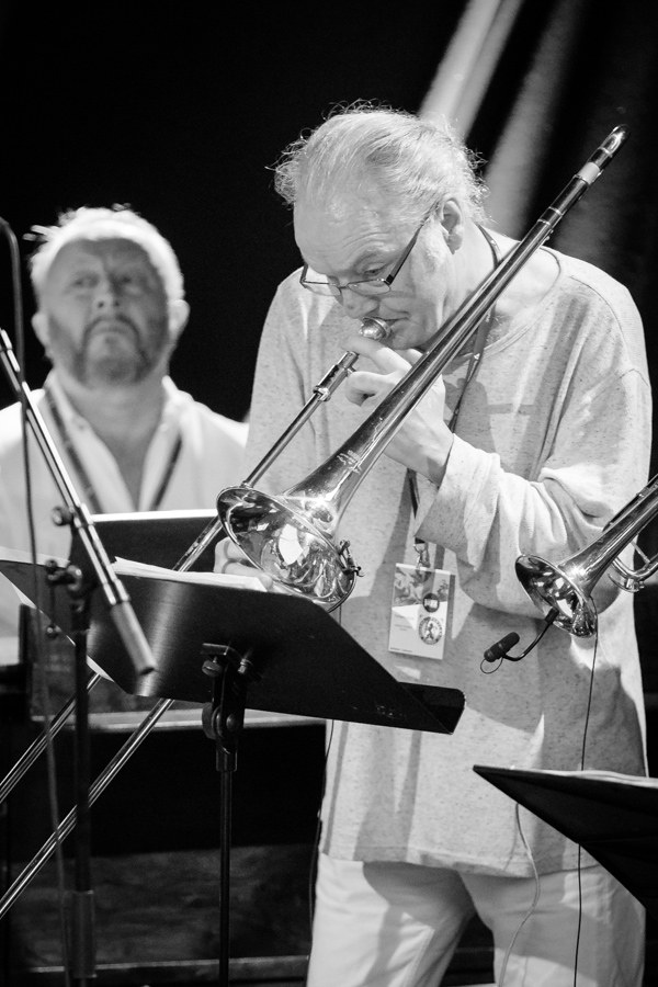 Torbjørn Sunde with Mulens Portland Combo at Christians Kjeller. The concert was part of Kongsberg Jazzfestival and took place on 05. July 2018 in Kongsberg. Lineup:Hans Cato Kristiansen (vocal and guitar)Freddy Dahl (guitar)Frode Alnæs (vocal)Ole Henrik Giørtz (keyboard)Palle Wangberg (organ)Tom Erik Antonsen (bass guitar)Rolf “Mulen” Karlsen (drums)Rune Arnesen (percussion)Torbjørn Sunde (trombone)Unidentified (saxophone)Jens Petter Antonsen (trumpet)